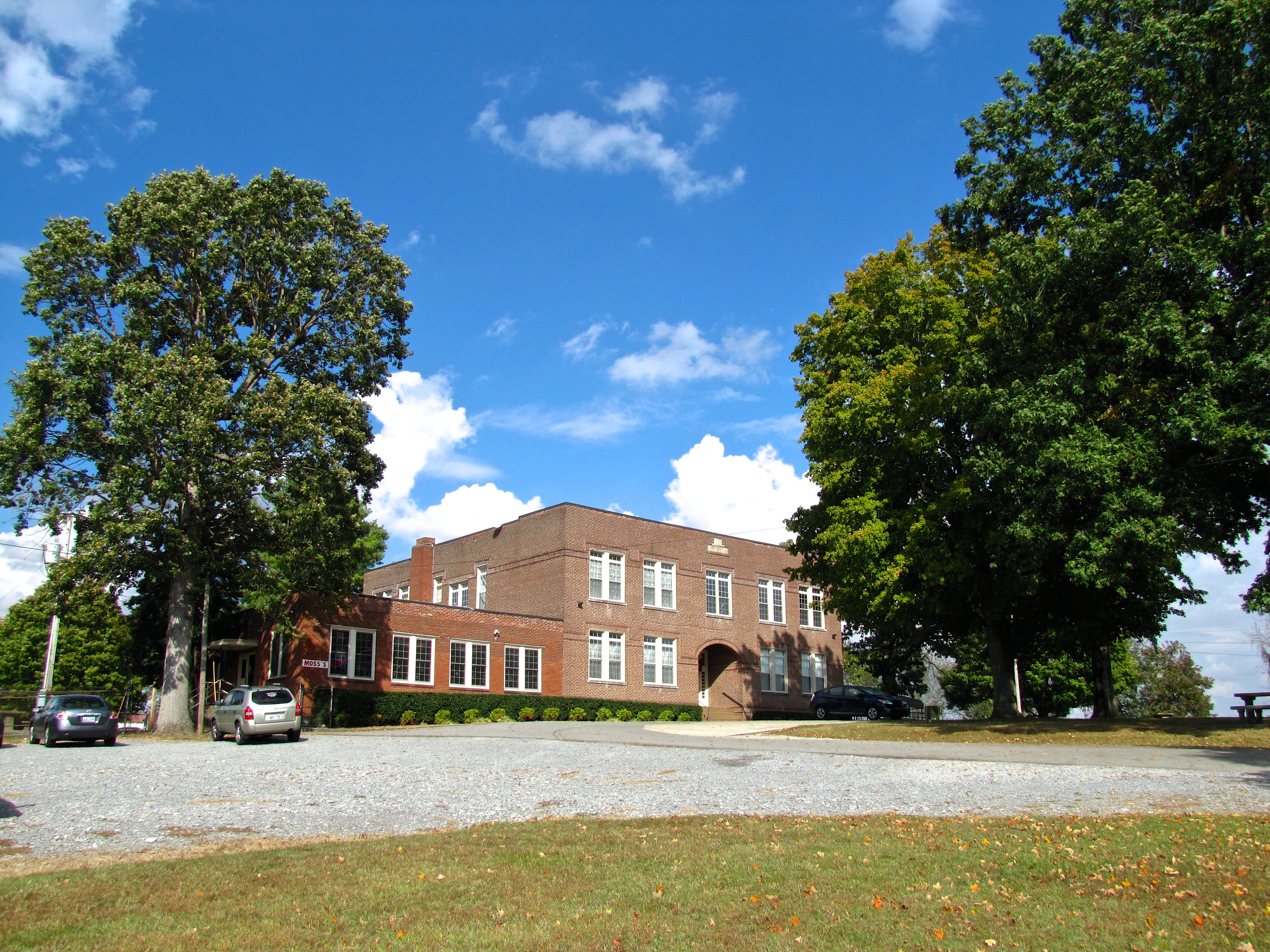 The former Bell School in Adams, Tennessee, United States. The building now houses municipal offices. The addition on the left is home to Moss Restaurant.